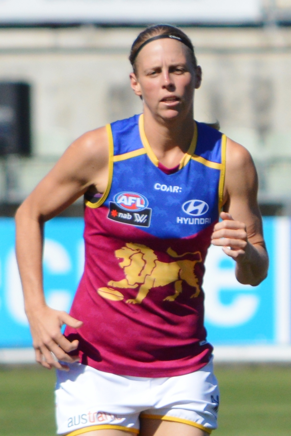 Kate Lutkins during the round 7, 2017 AFL Women's match between Carlton and Brisbane.